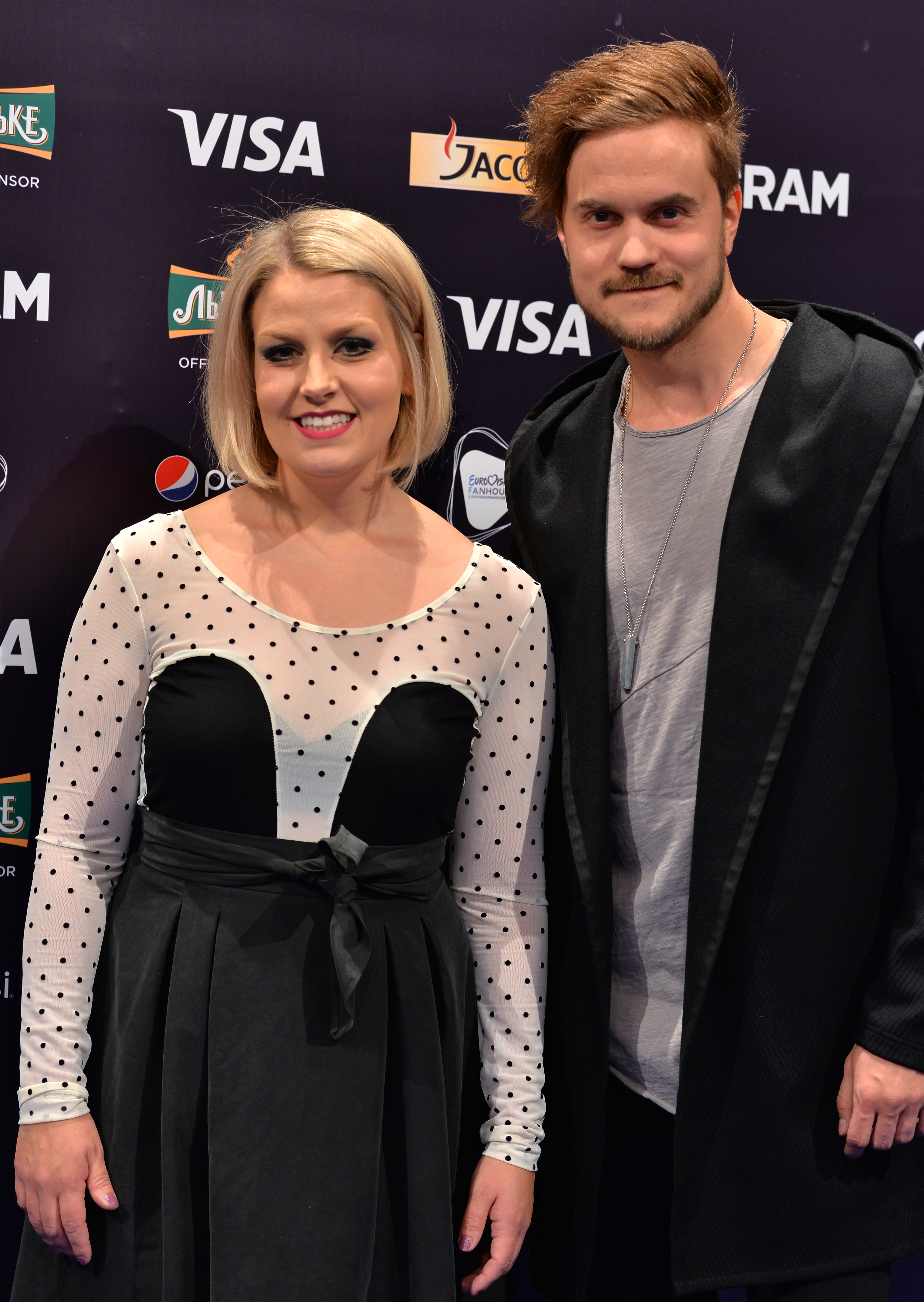 Norma John from Finland at Eurovision Song Contest 2017